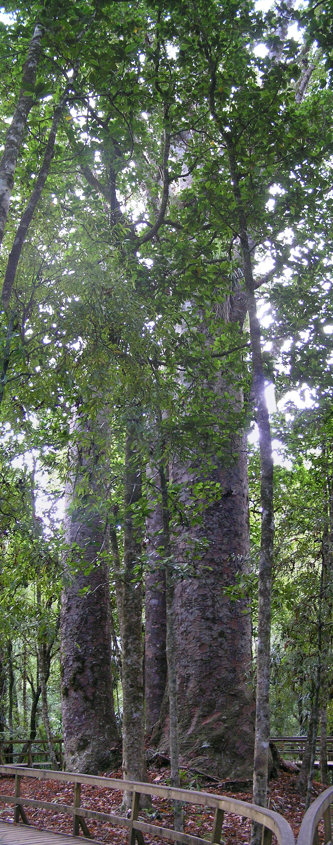 Four Sisters (four kauri trees) at Waipoua Forest (Northland, New Zealand). Author: Mr. Tickle Date: March 28th, 2005